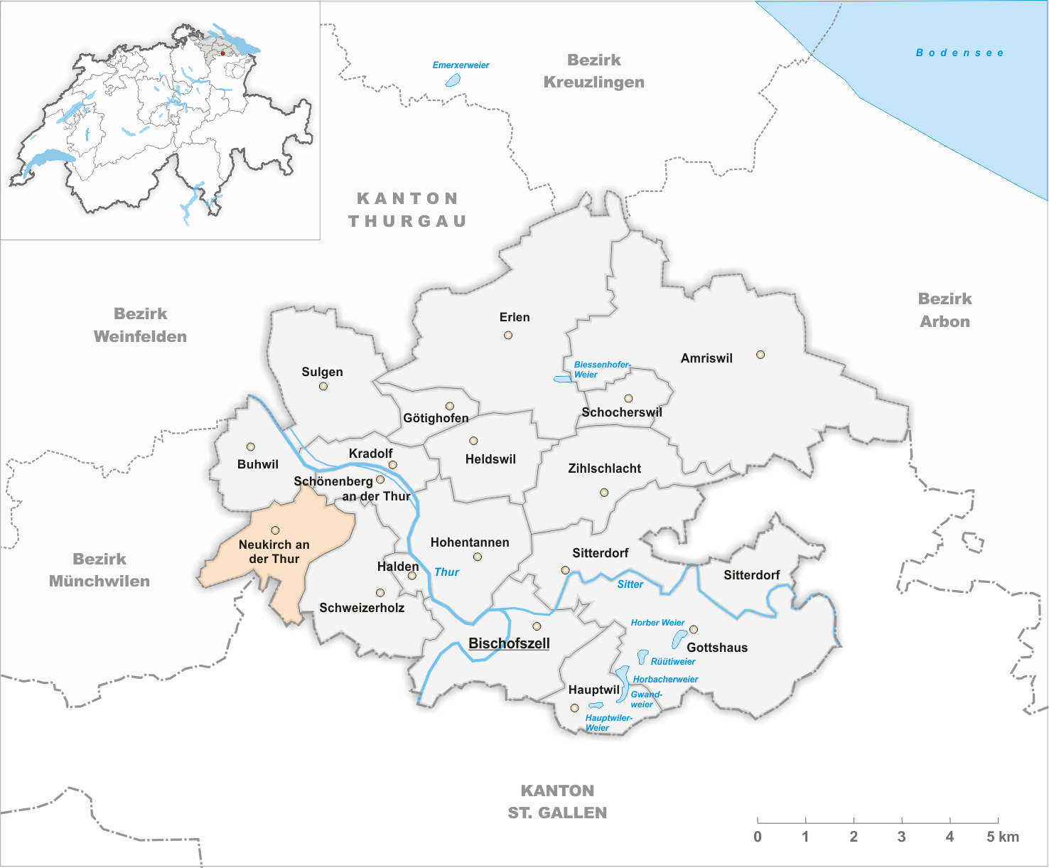 Municipality Neukirch